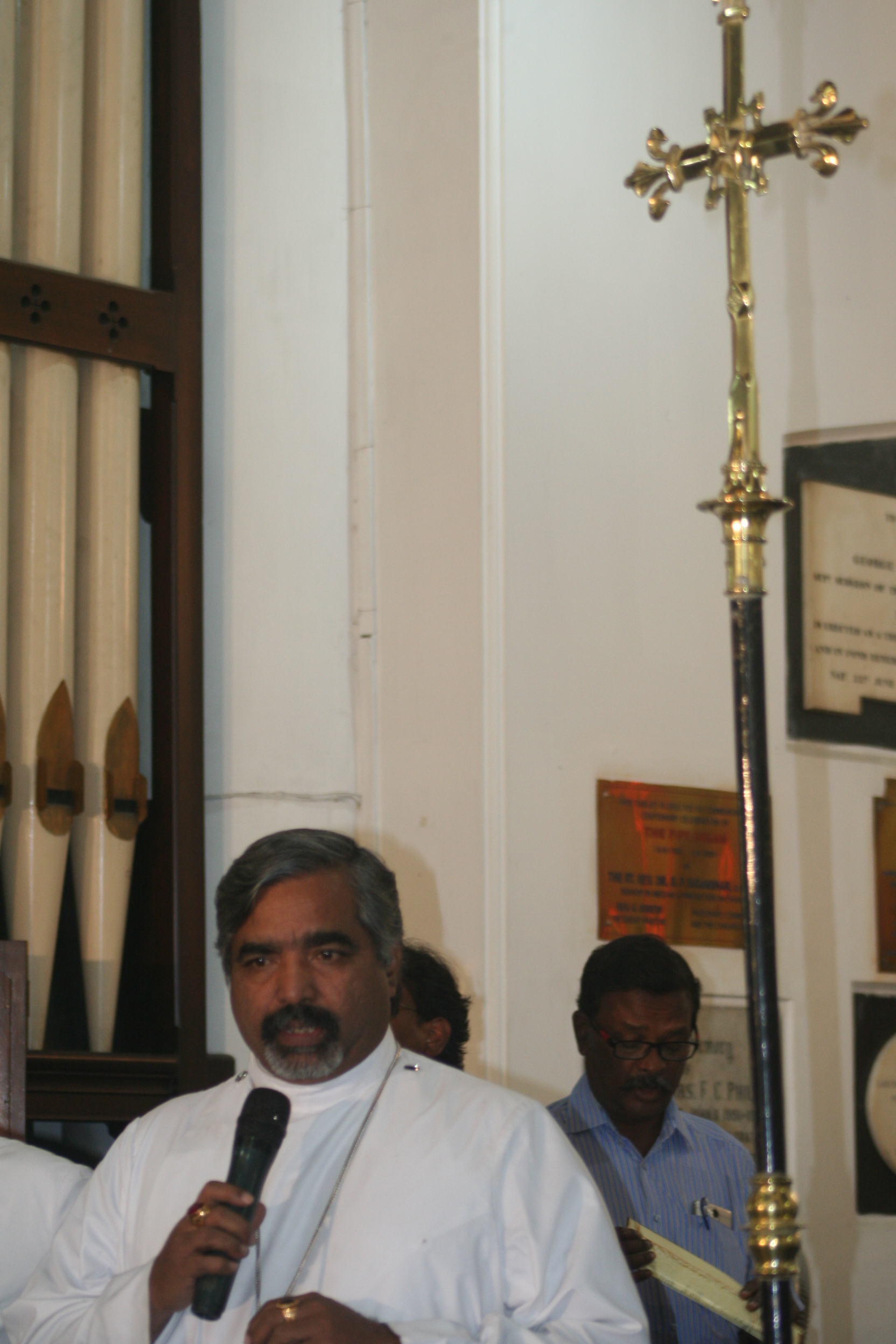 Bishop Solomon at CSI-Church of St. John the Baptist